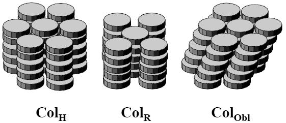 Columnar mesophases